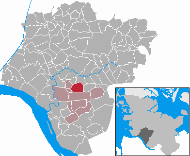 This map shows the area of the municipality Dägeling in the Kreis (district) Steinburg, Schleswig-Holstein, Germany.